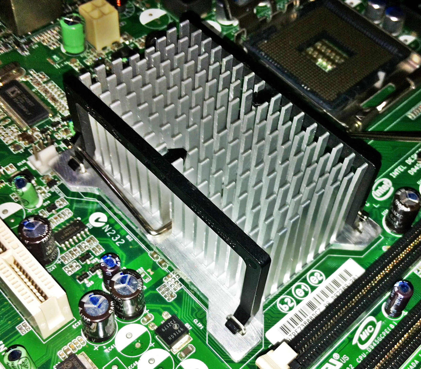 GMA 950 Express Chispet Family on Intel D945GCPE motherboard. Closeup of Heatsink.